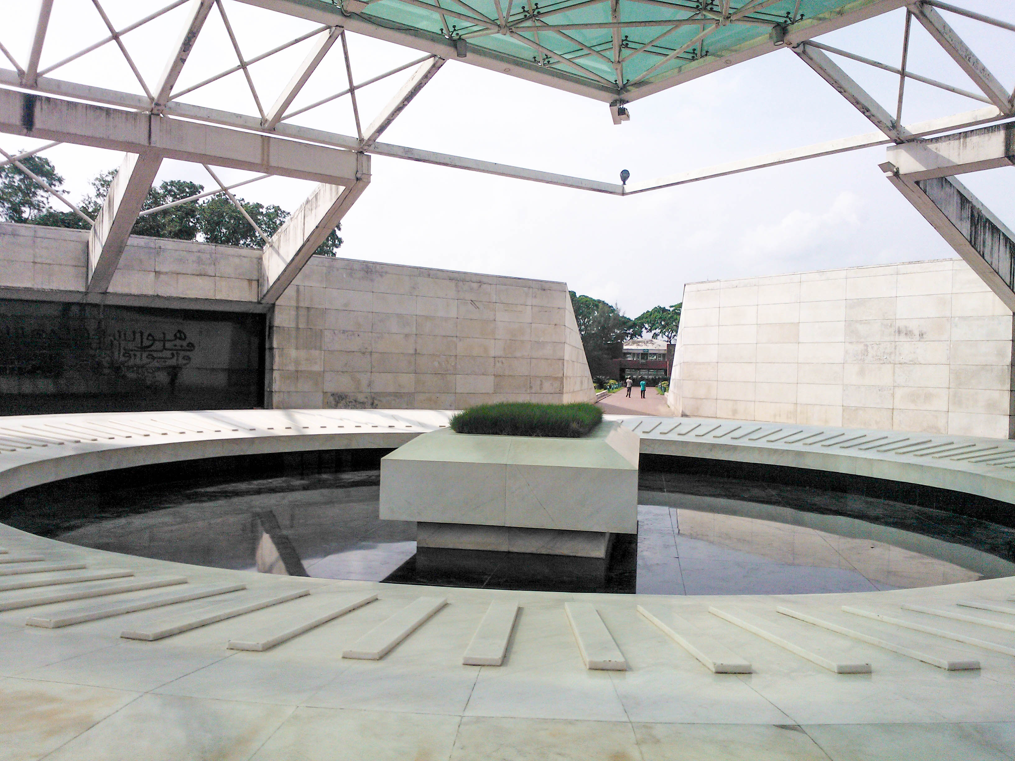 Mausoleum of late Bangladeshi President Ziaur Rahman in Dhaka.